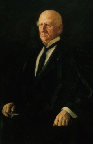 John Marshall Harlan (1833-1911); US Supreme Court Judge (1877-1911)